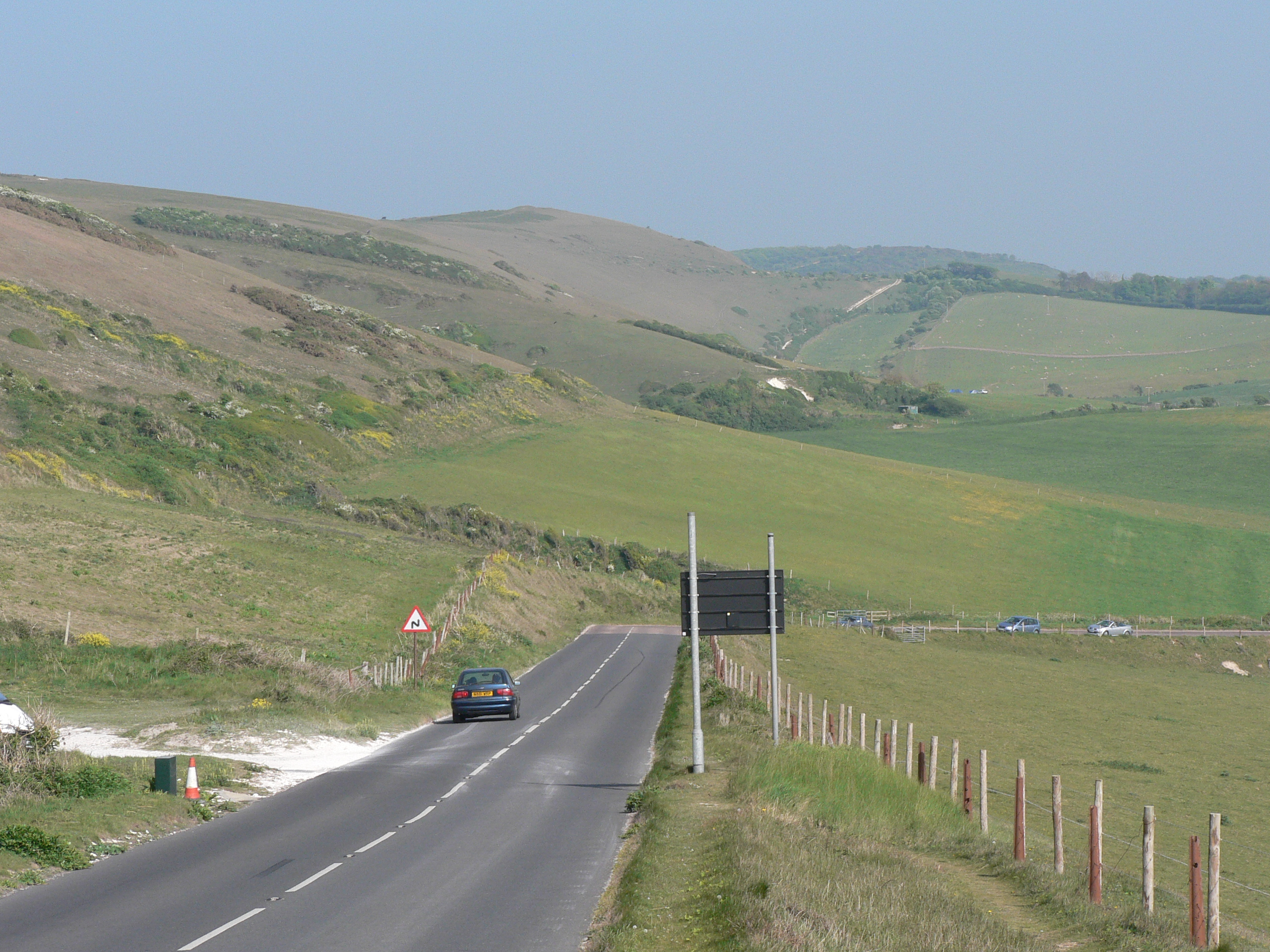 Part of the A3055 Military Road, at Compton Farm, Isle of Wight. The sign in the photo illuminates automatically in the event of a landslide, or can be switched on manually in bad weather, to close the road.